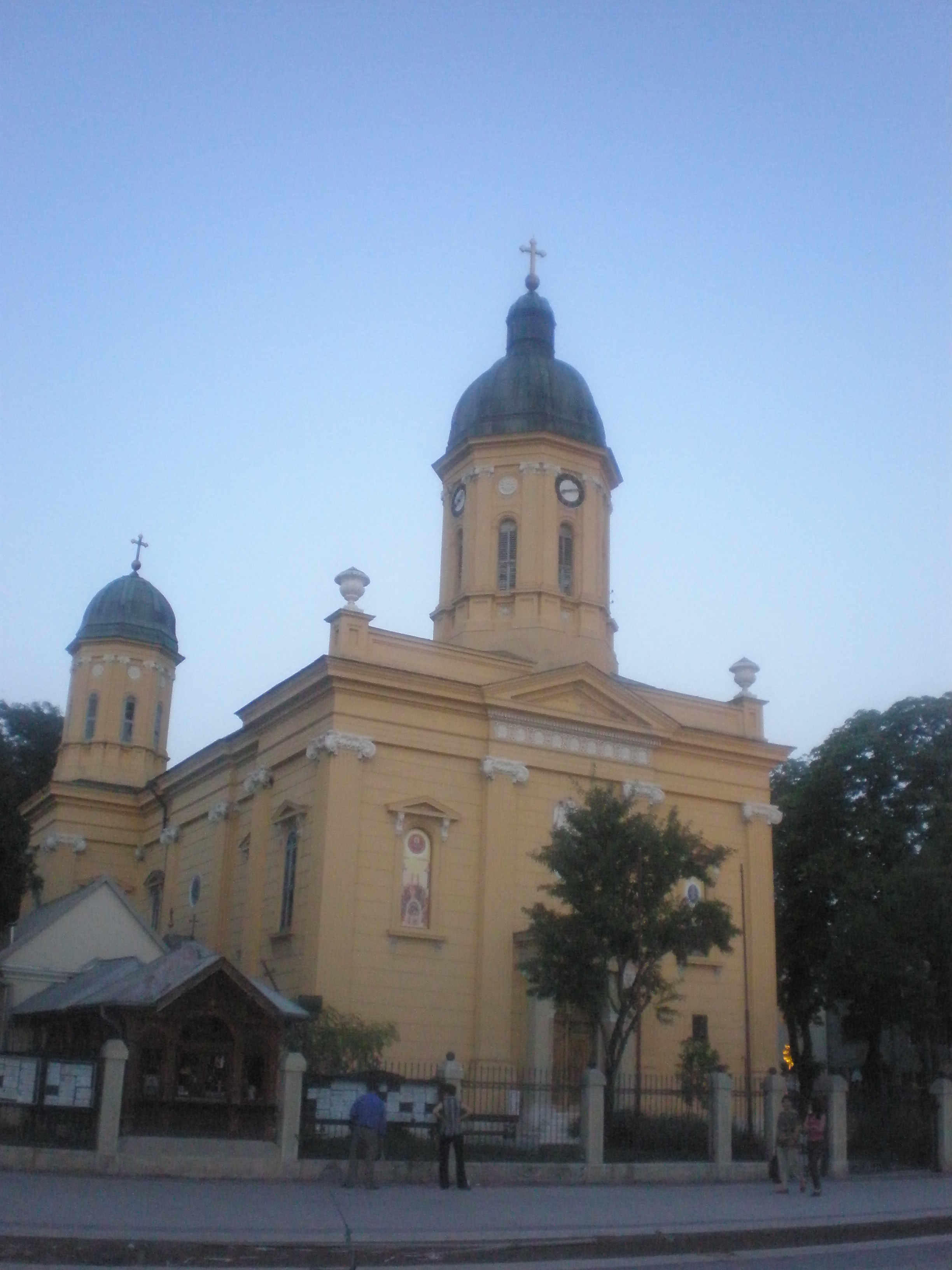 The Church in the serbian City Negotin